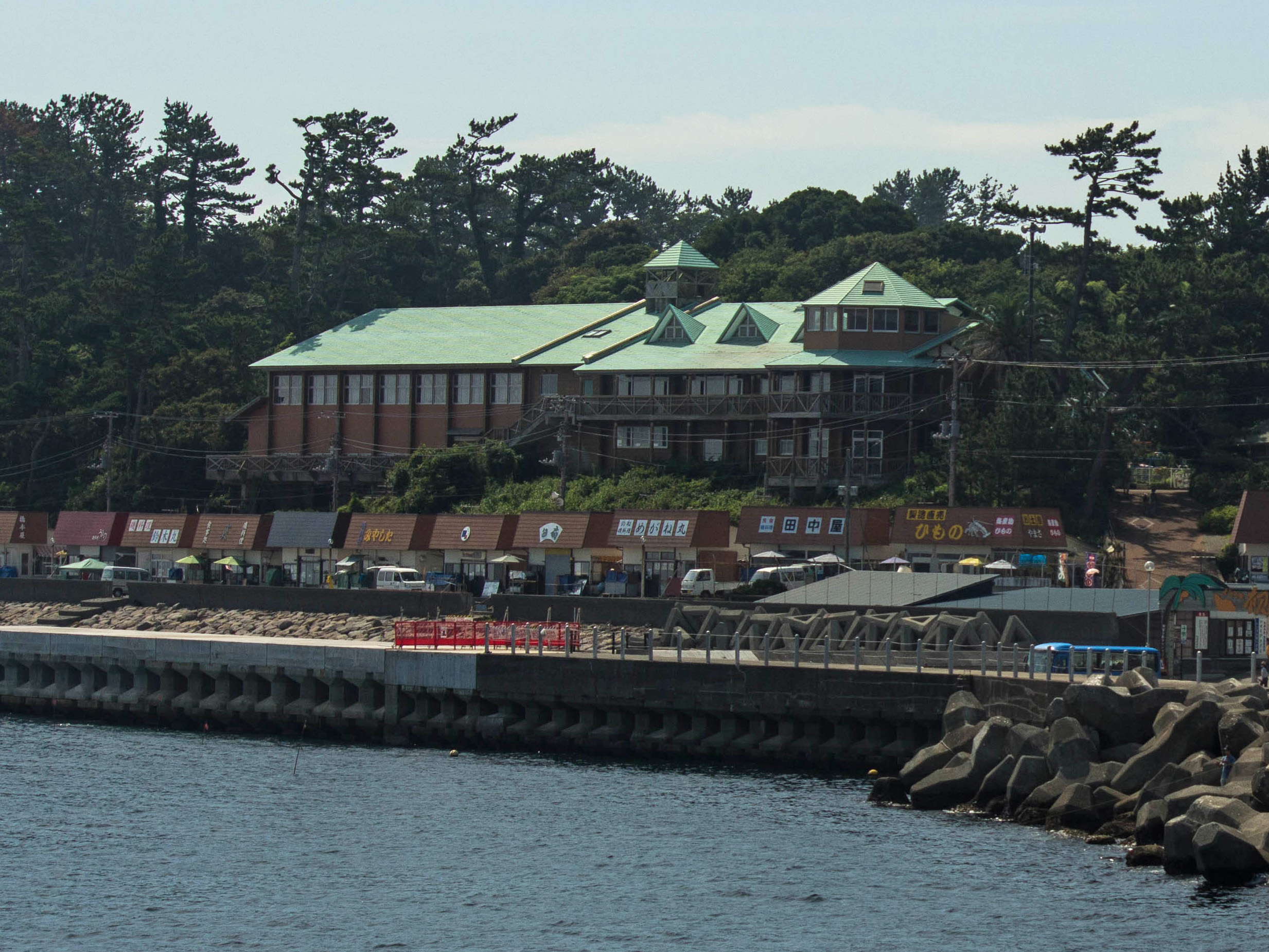 Hatsushima Elementary School in Hatsushima Island, Atami, Shizuoka Prefecture, Japan.